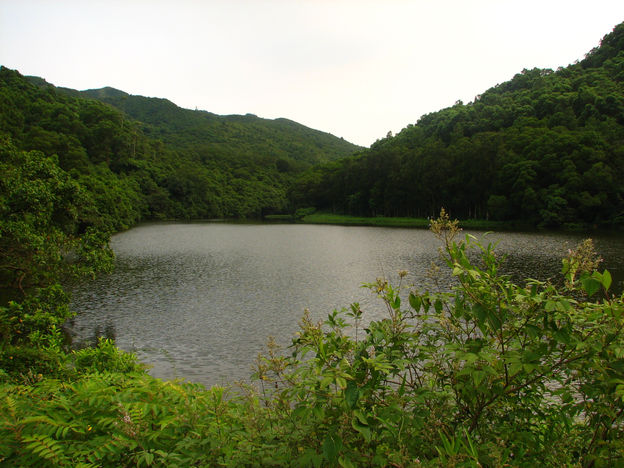 lau shui heung reservoir